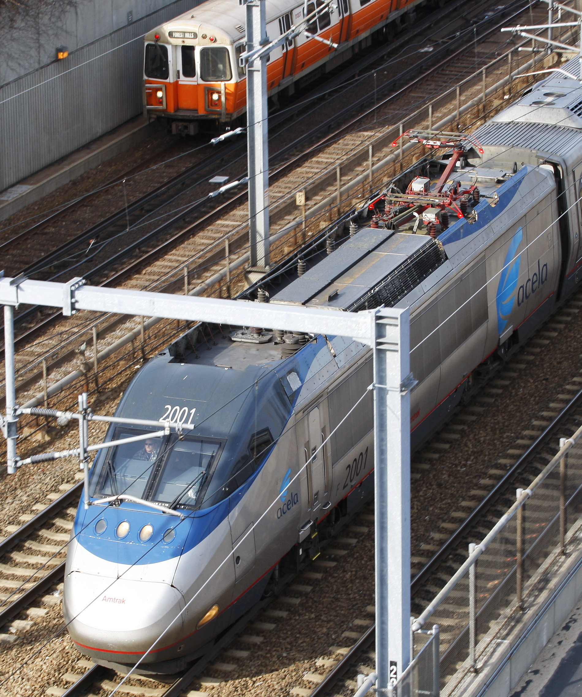 Acela Express power car 2001 complete with flannel clad engineer and flashing ditch lights hums past a Forest Hills Bound MBTA Orange Line Train. (Editor's note: photo was taken from an overpass between Massachusetts Avenue and Ruggles; the picture faces approximately north.)